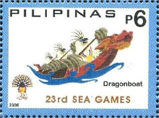 2005 Southeast Asian Games